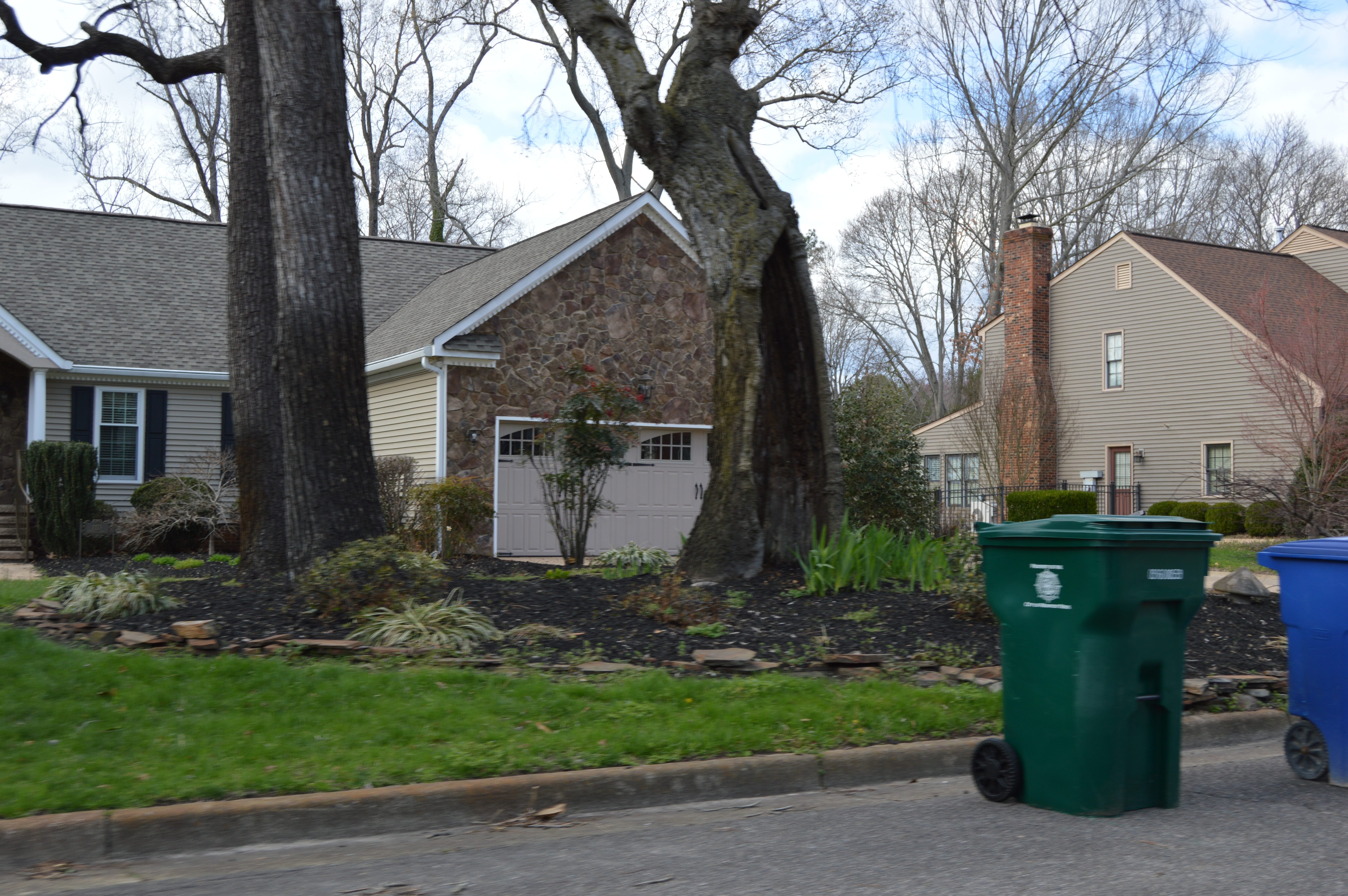 Overview of the site of Boldrup Plantation, located in the 1100 block of Patrick Lane in Newport News, Virginia, United States. The site is listed on the National Register of Historic Places.